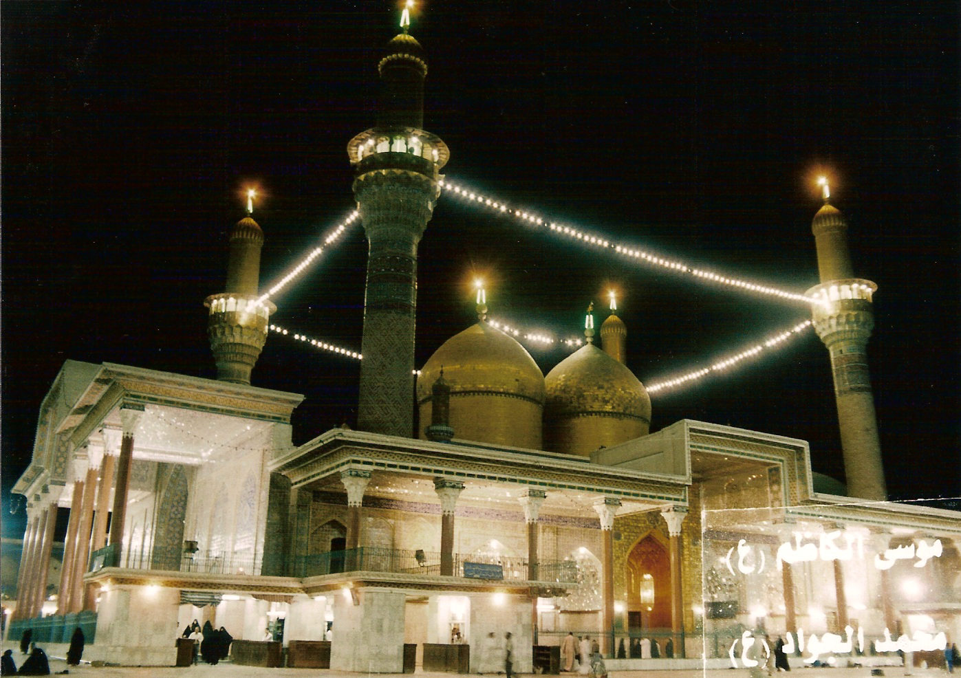 Al-Kadhimiya Mosque in Baghdad, Iraq